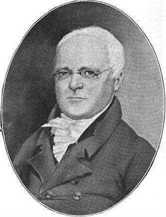 Drawing of Henry William DeSaussure